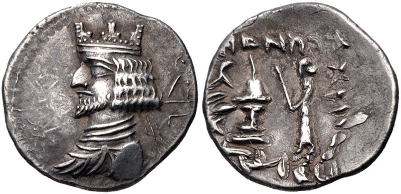 KINGS of PERSIS. Ardaxšir (Artaxerxes) II. 1st century BC